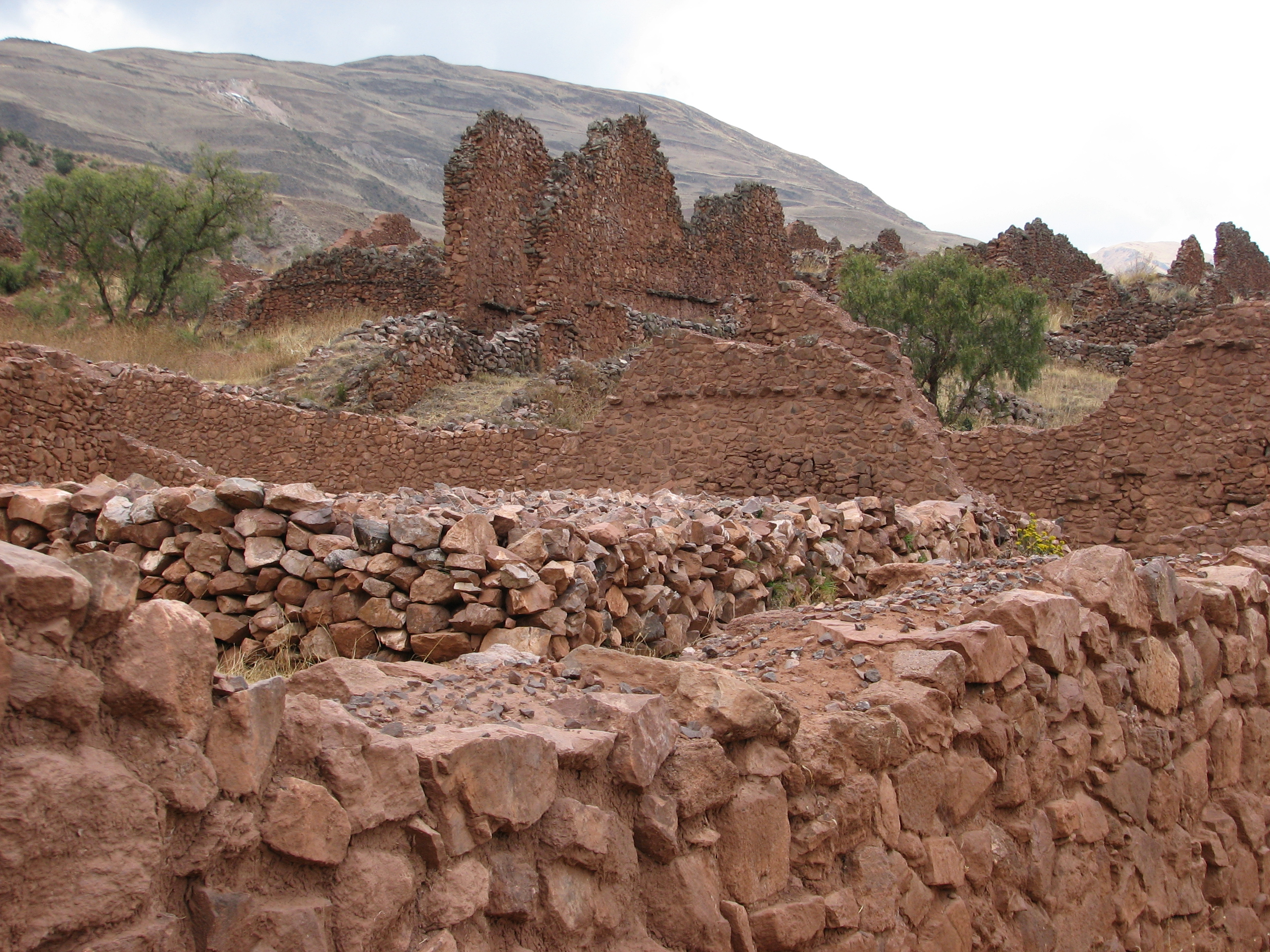 Piquillacta Archaeological site (building)